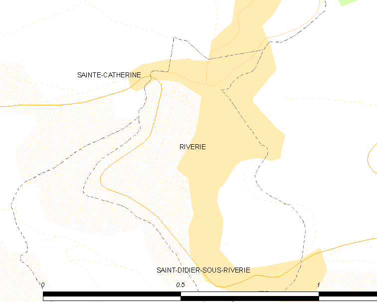 Map of French municipality